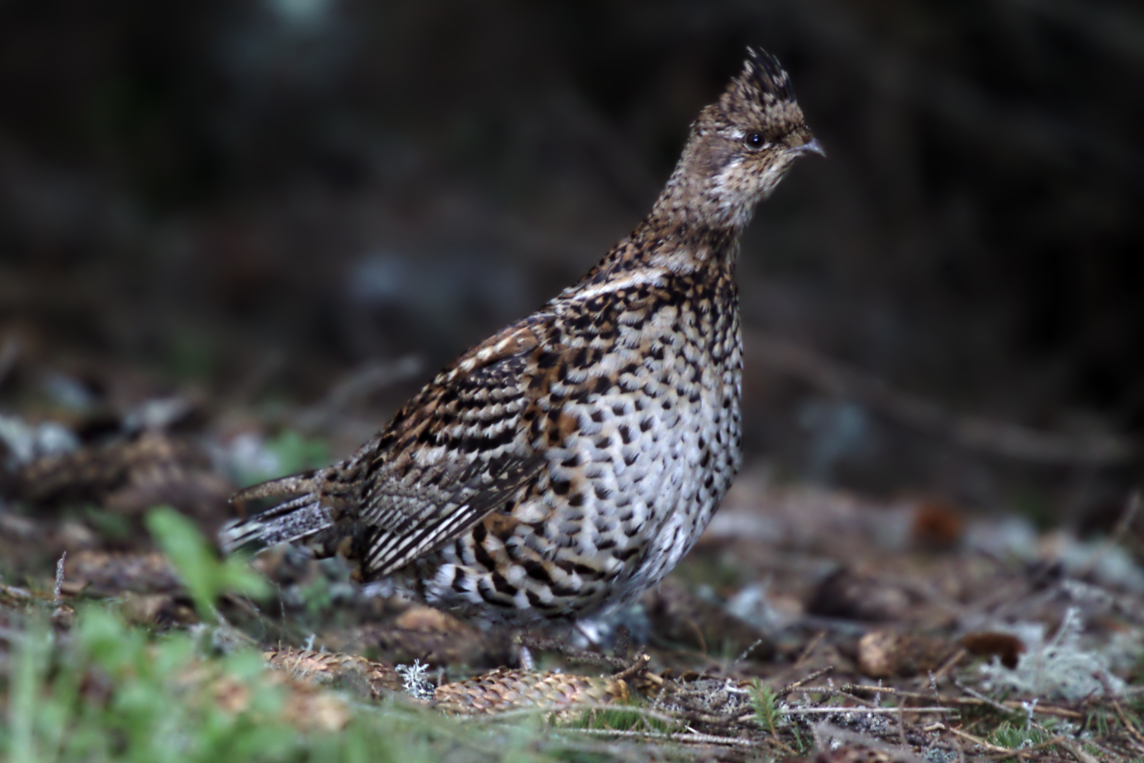 Hazel Grouse in the Southern Carpathians, Romania